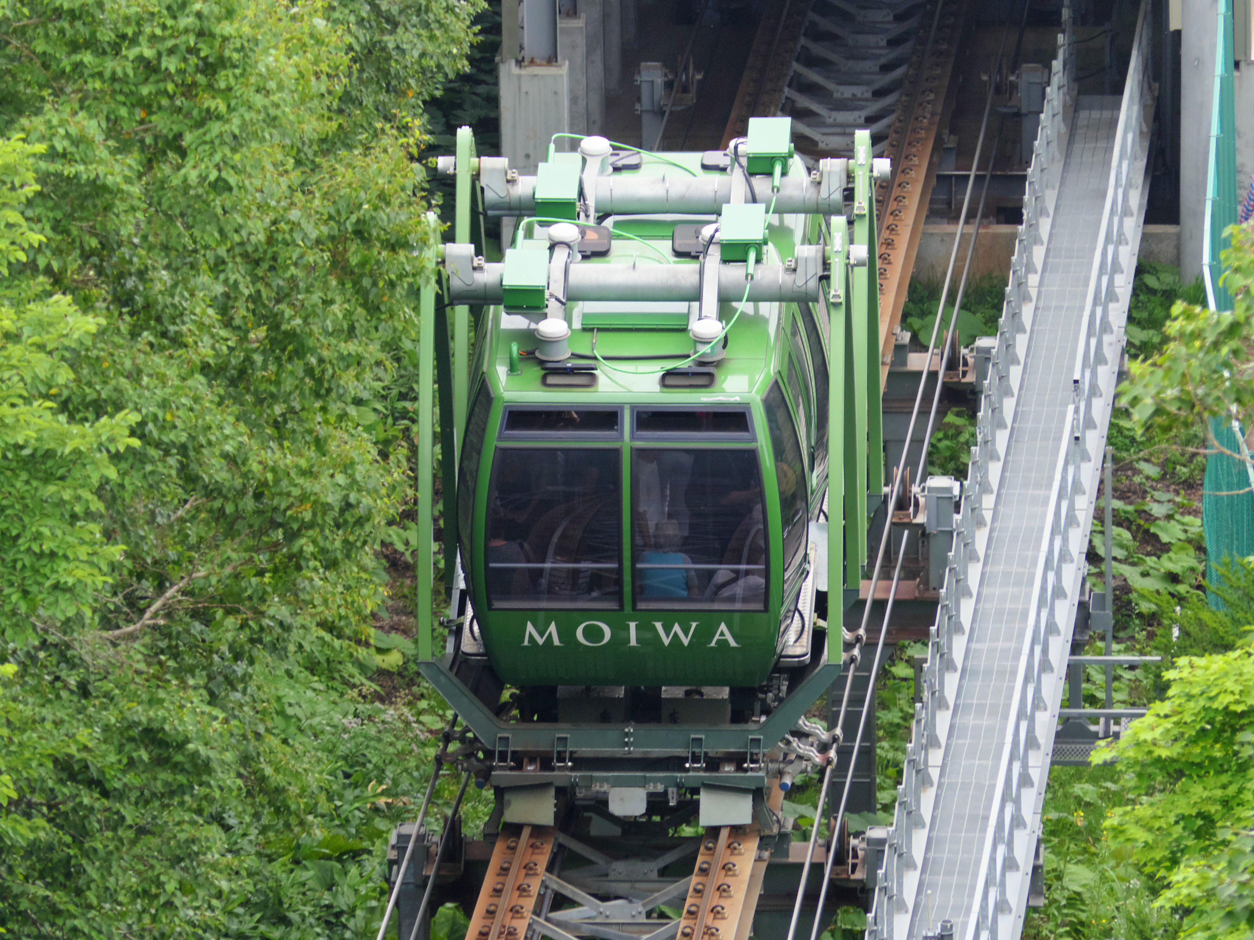 Mini funicular "Morris Car" on Mt.Moiwa, Sapporo, Hokkaido, Japan.